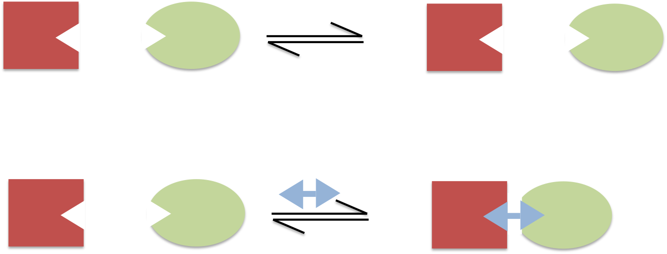 A diagram of proteins dimerizing in the presence of a dimerizing agent.